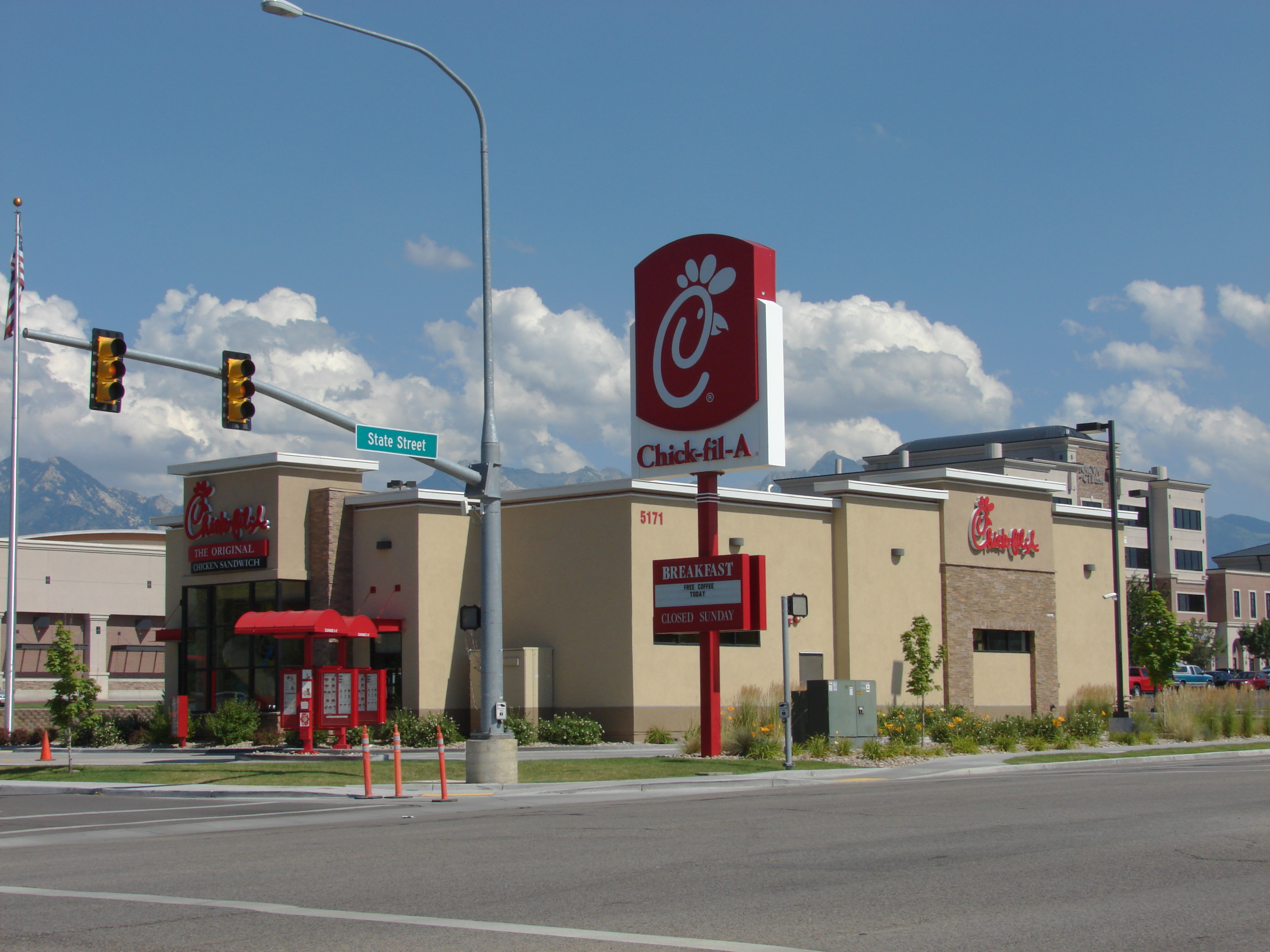 Chick-fil-A restaurant in Murray, Utah